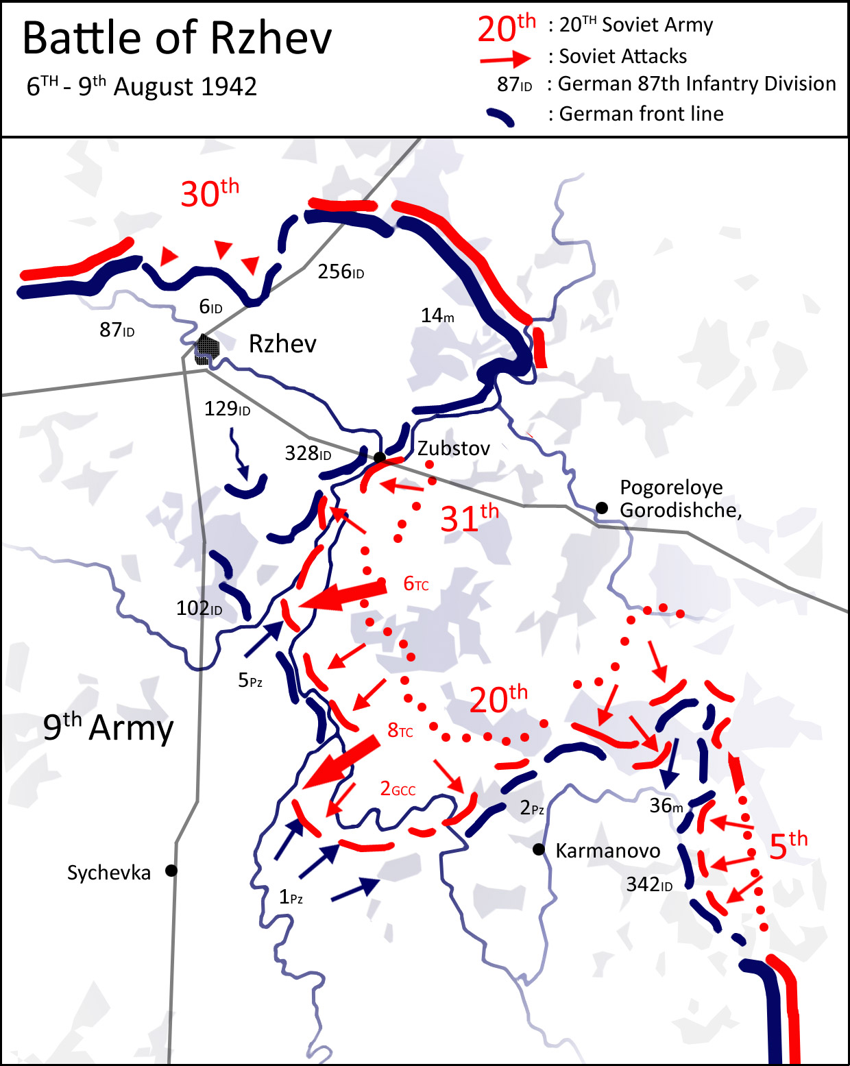 Battle of Rzhev - Summer 1942, Soviet Western Front continues its advance against increasing resistance from Army Group Cente